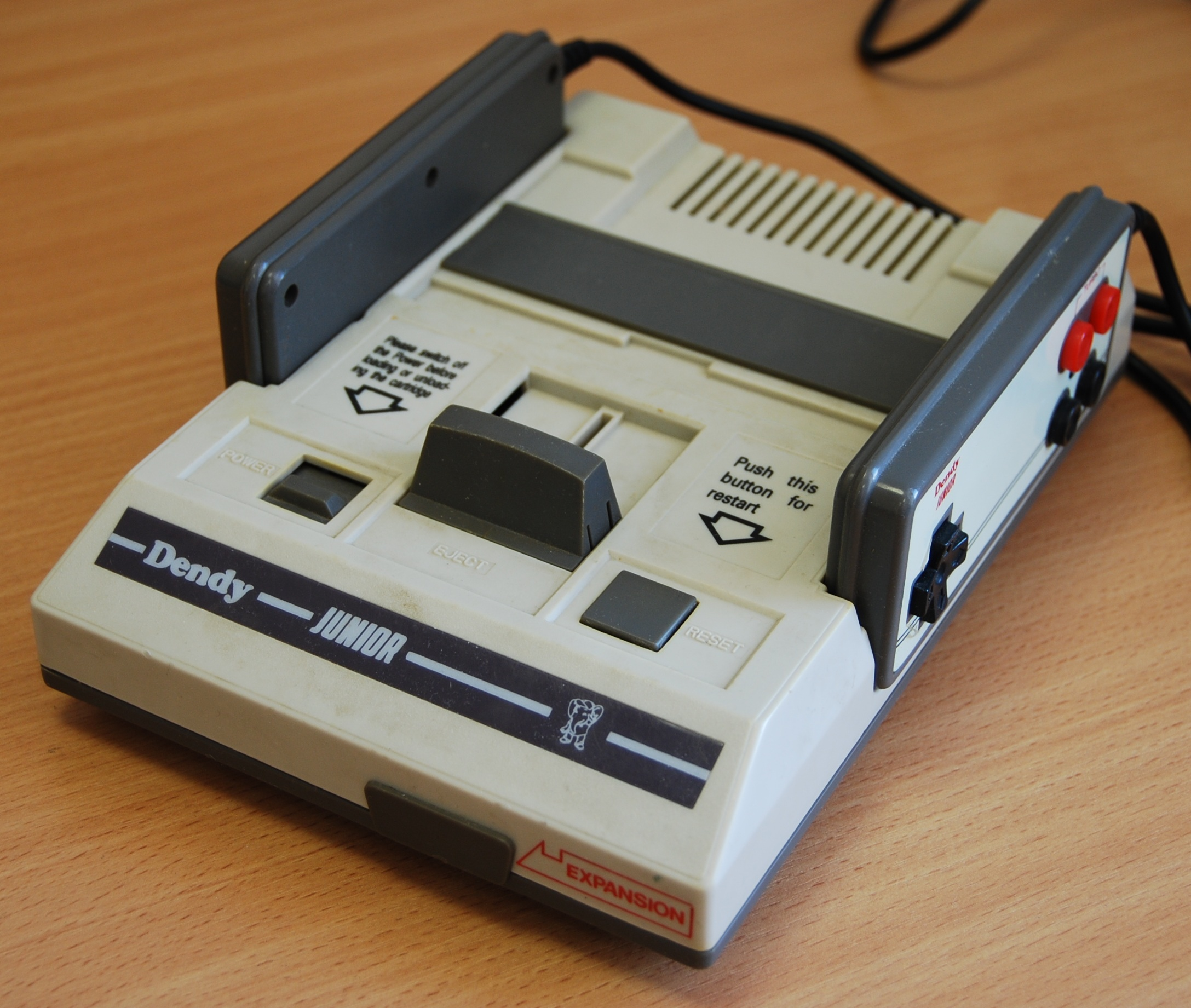 Dendy Junior II game console (russian Famicom/NES clone) with two undetachable controllers.